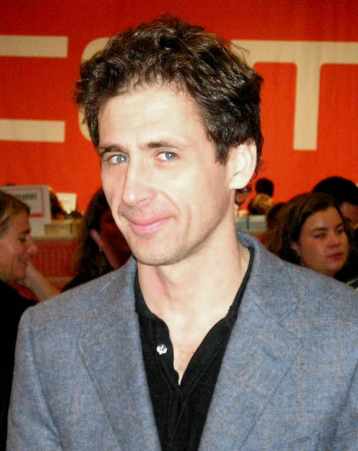 Photo taken at Gothenburg Book Fair 2005 by Lennart Guldbrandsson